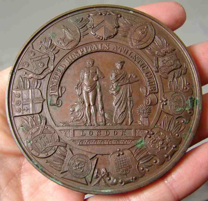 Historic UH Athletics Medal from personal collection